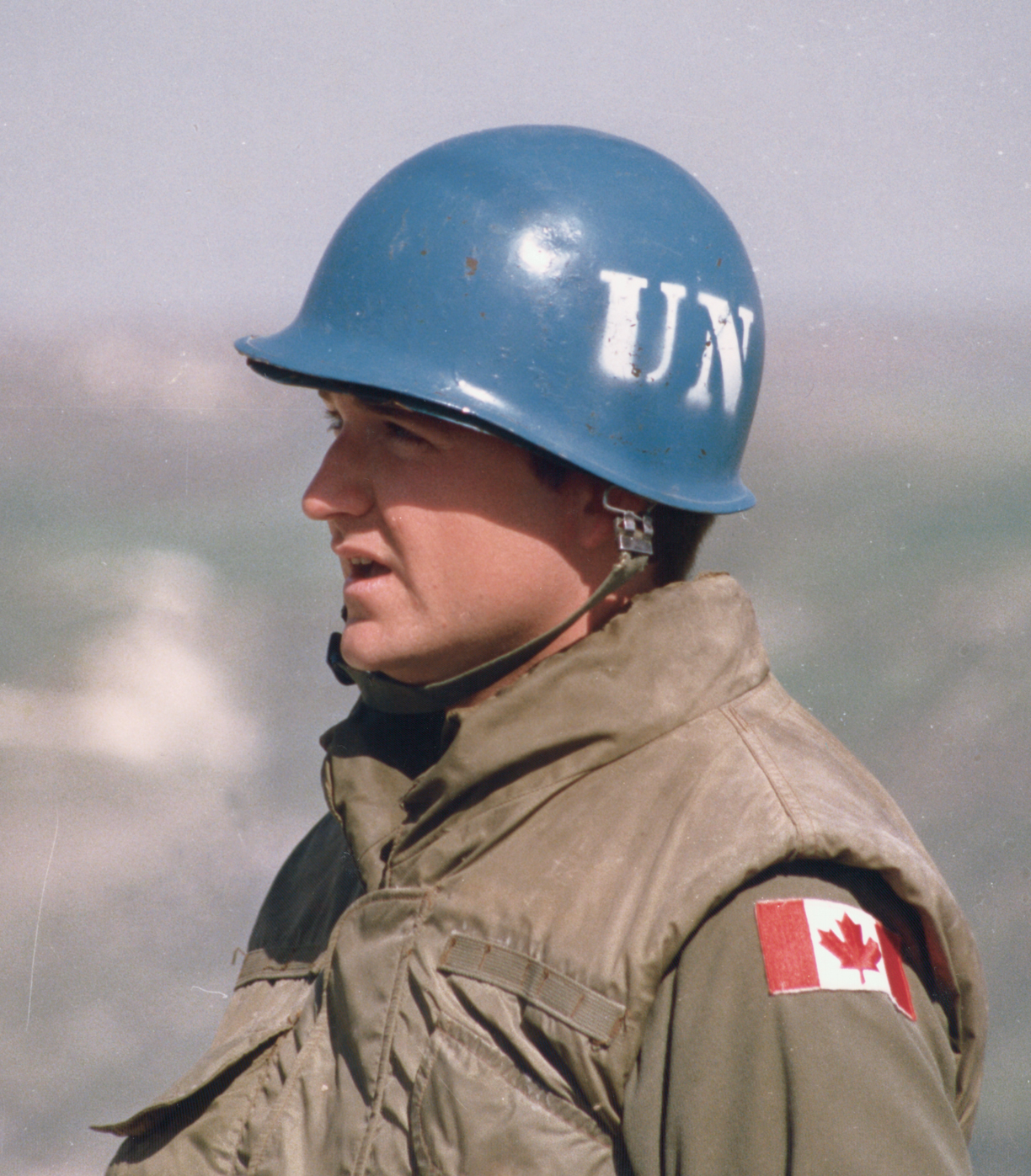 Marty Burke in UN